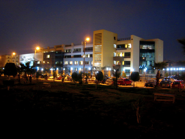 Arab Academy for Science, Technology & Maritime Transport, Engineering Building in Cairo Campus at Night